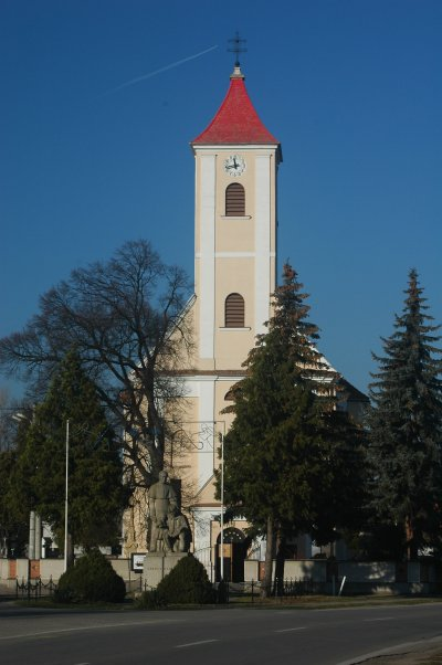 Church, Kúty, Western Slovakia